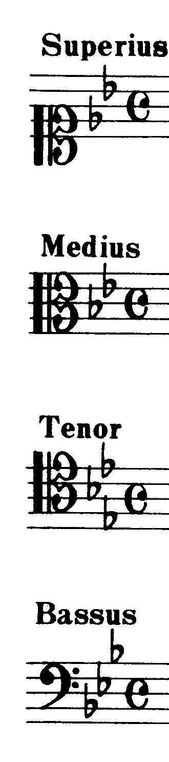 Scan of early music key signature variants